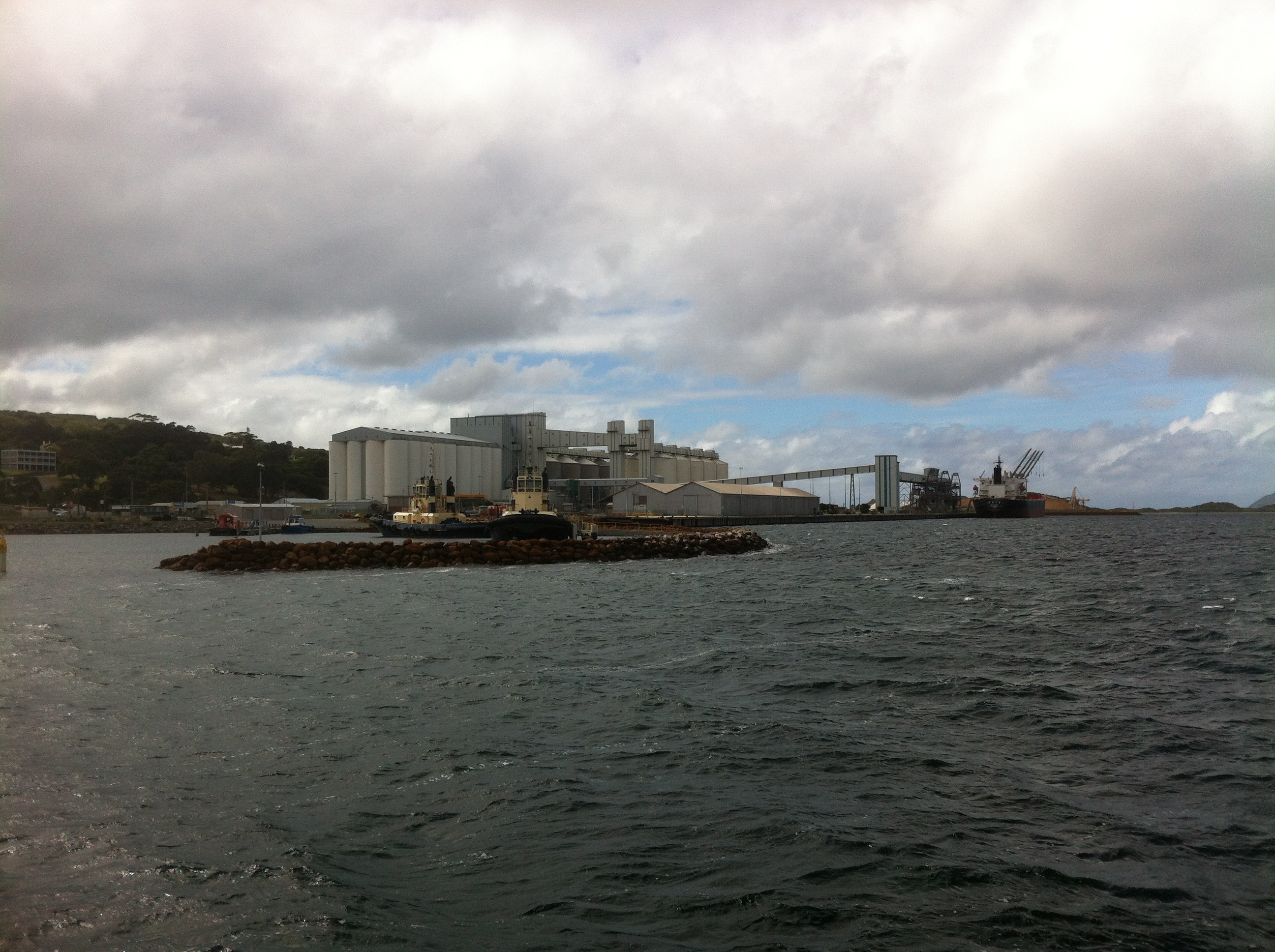 shot of port taken from boat pens to north of port facilities